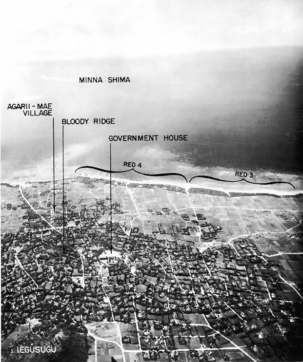 Ie and the southern beaches viewed from directly over the Pinnacle.